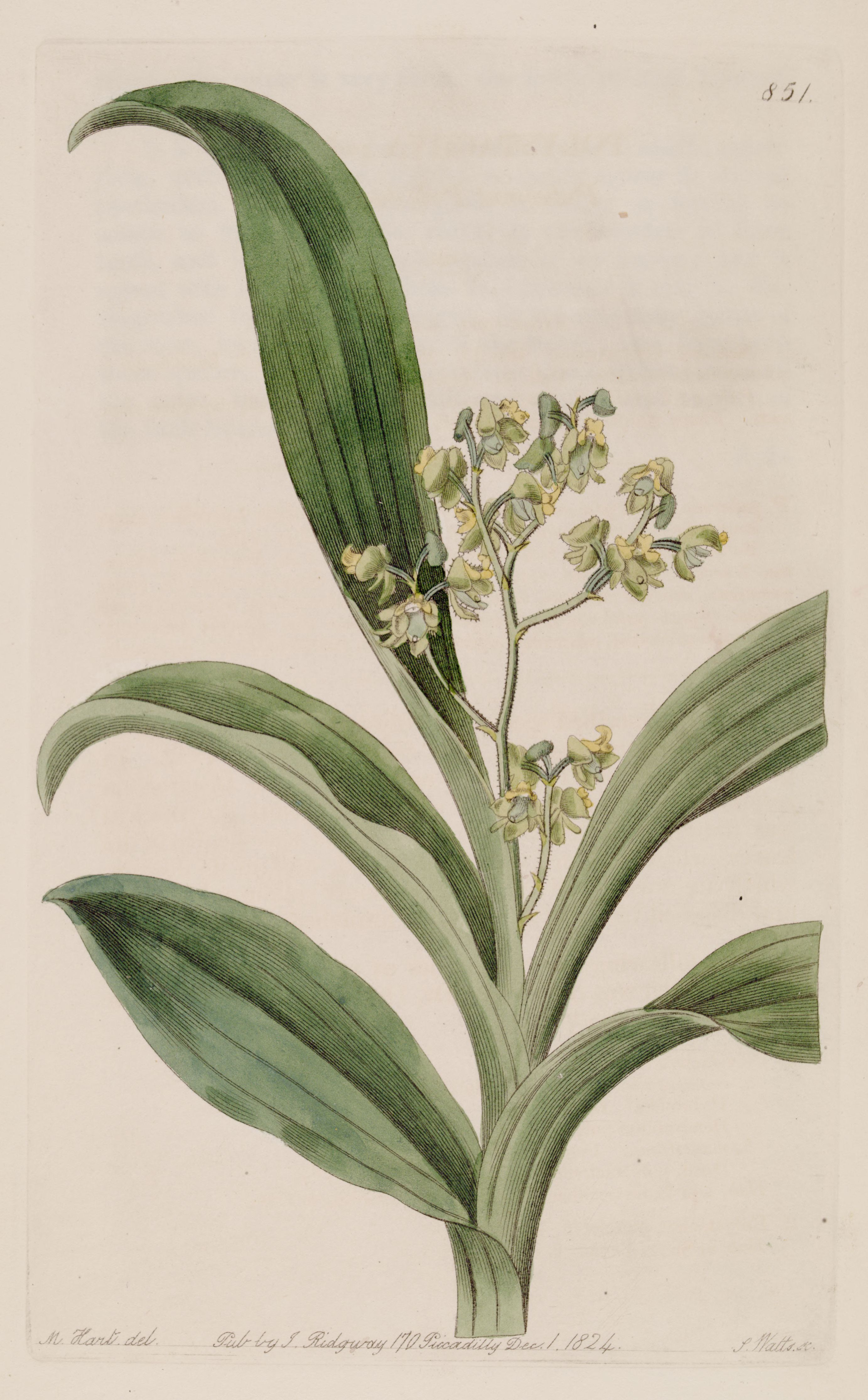 Illustration of Polystachya puberula